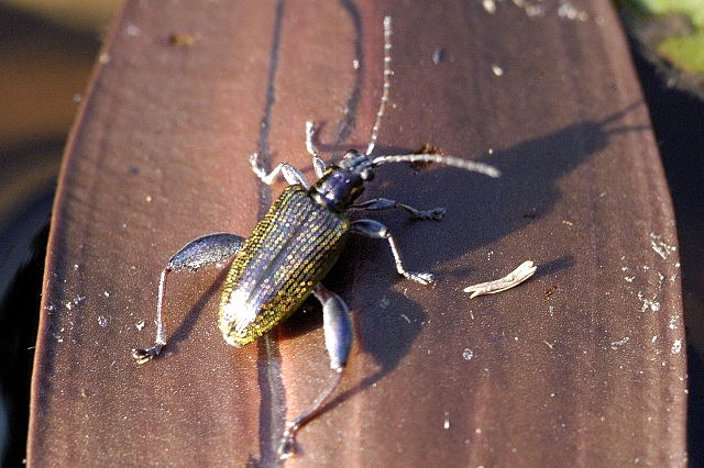 Picture taken in Commanster, Belgian High Ardennes . Species: Donacia versicolorea